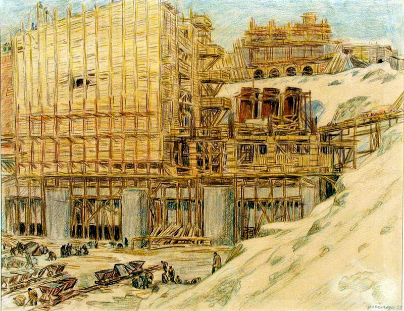 Construction of the Nivskaya Hydro Power Station. Murmansk region, 1933-34, color pencil on paper, State Ethnographic Museum of Karelia, Petrozavodsk